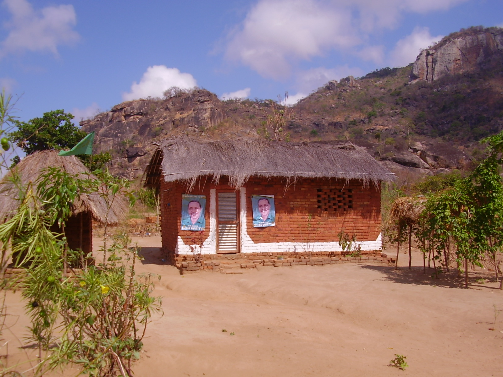 Election posters for the CCM Presidential Candidate who is expected to be elected for his second term of office.